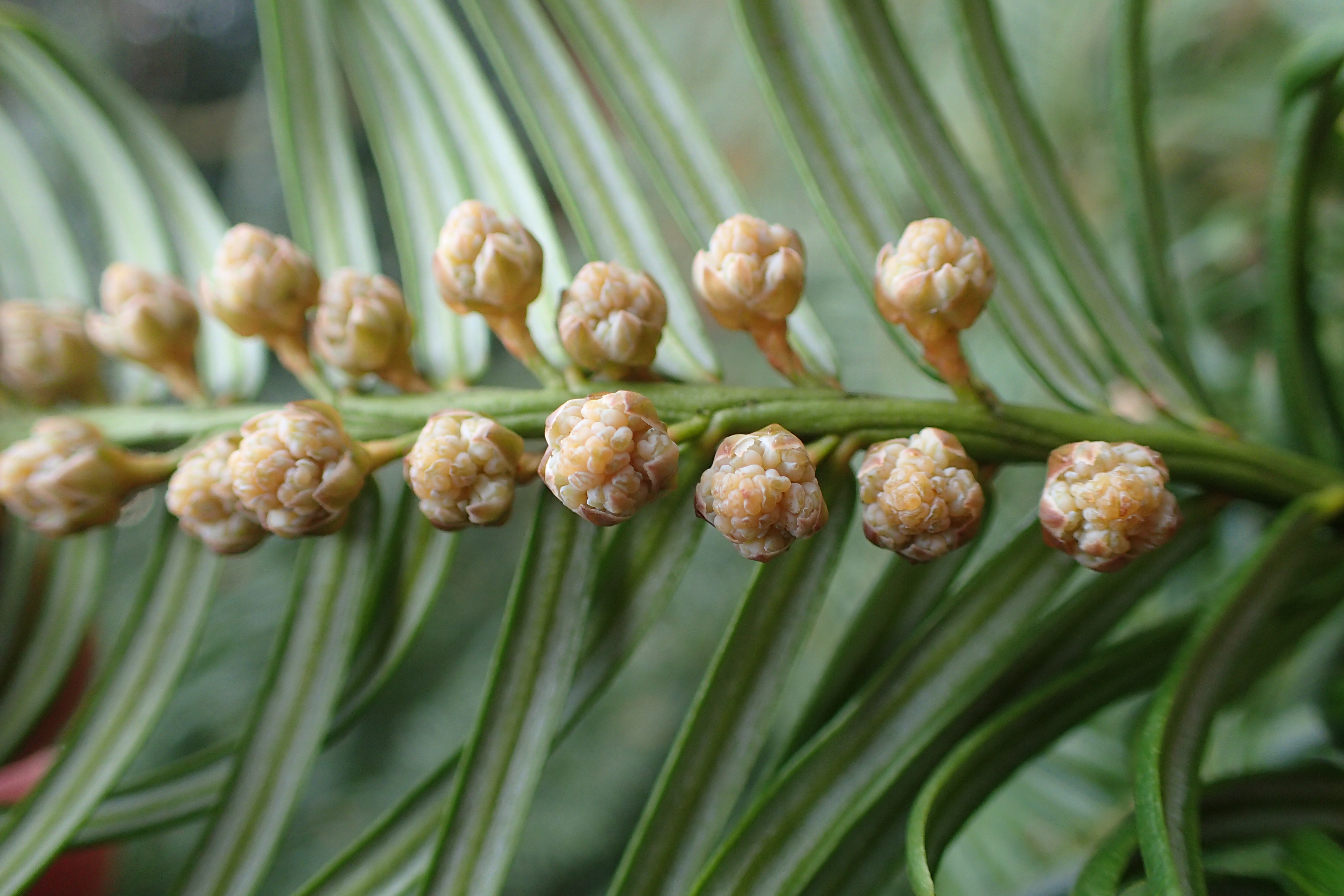 Cephalotaxus harringtonia. Arboretum in Glinna, NW Poland